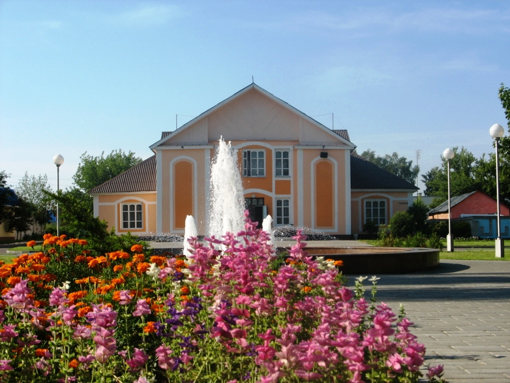 Hlusk (Belarus) Глуск, былая рынкавая плошча